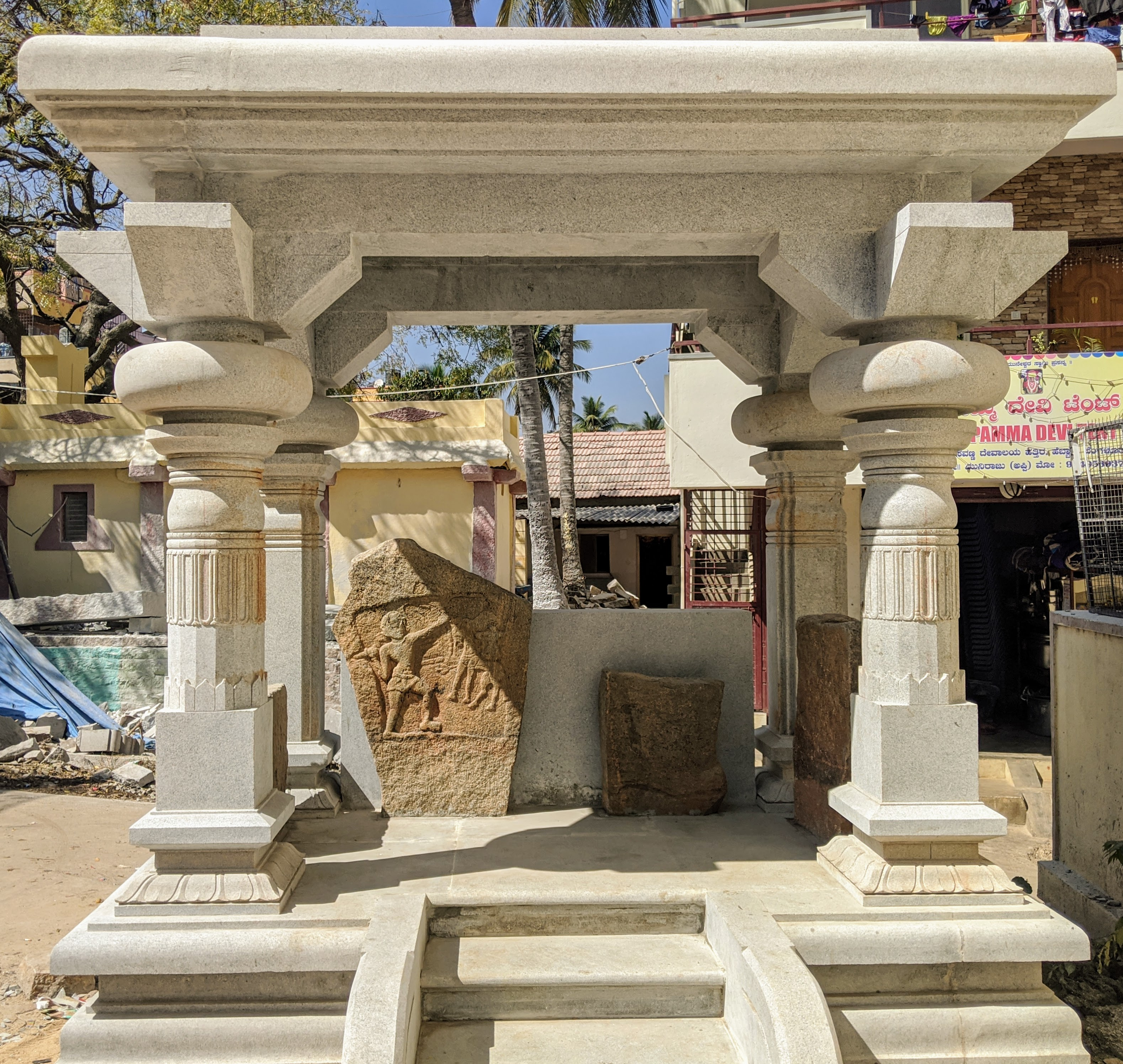 This crowd-funded Ganga style mantapa houses Bangalore's oldest inscription stone from 750CE , the Hebbal-Kittayya veeragalu